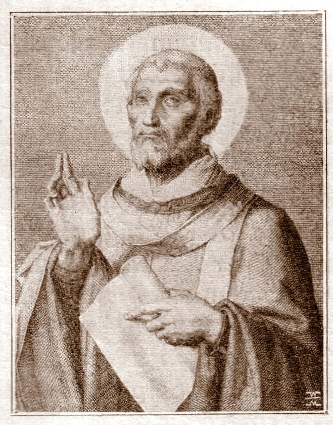 Picture of Pope Fabian in book of Dedek from 1900